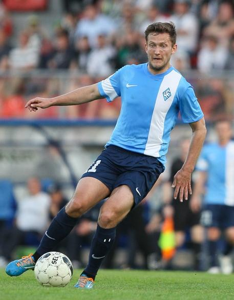 Aleksandr Pavlenko playing for FC Krylia Sovetov Samara.